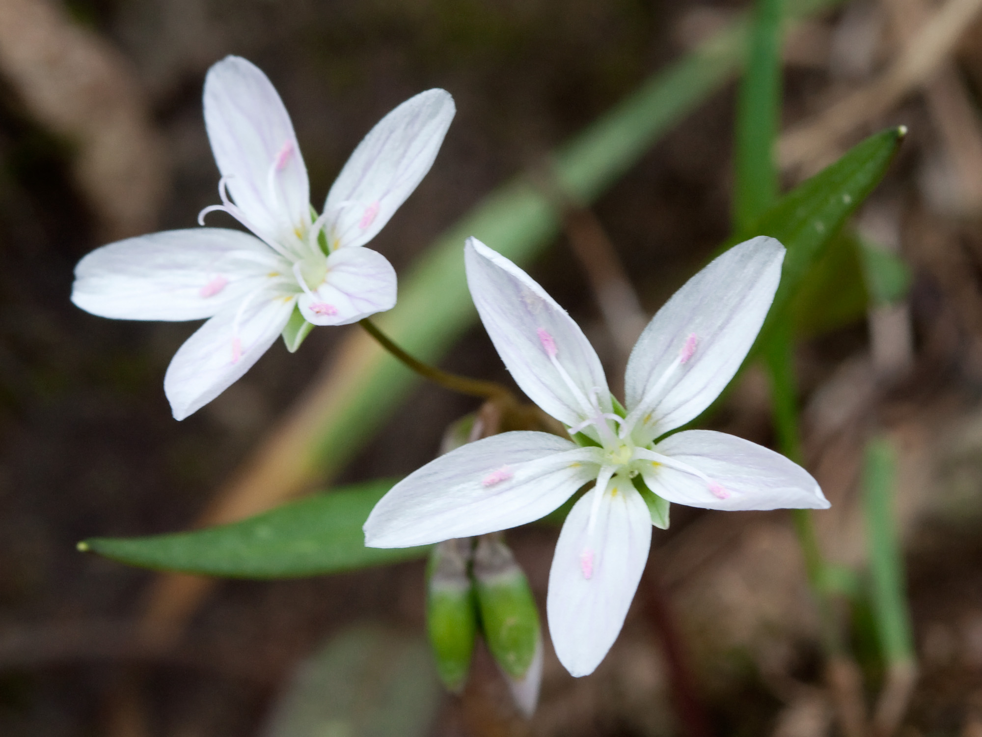 Eastern spring beauties (Claytonia virginica) at Radnor Lake in Nashville, Tennessee